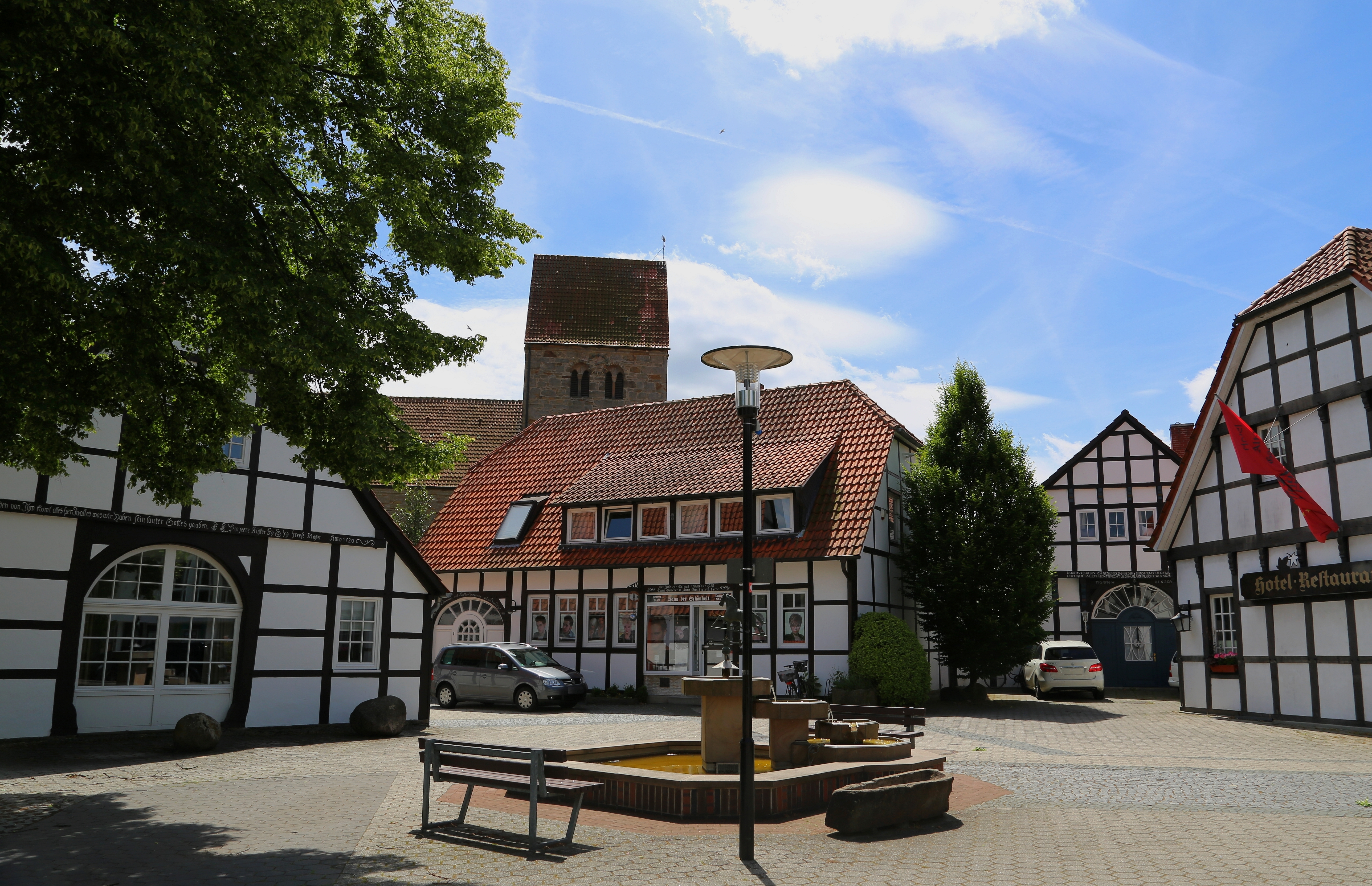 Market square of Recke, Kreis Steinfurt, North Rhine-Westphalia, Germany.